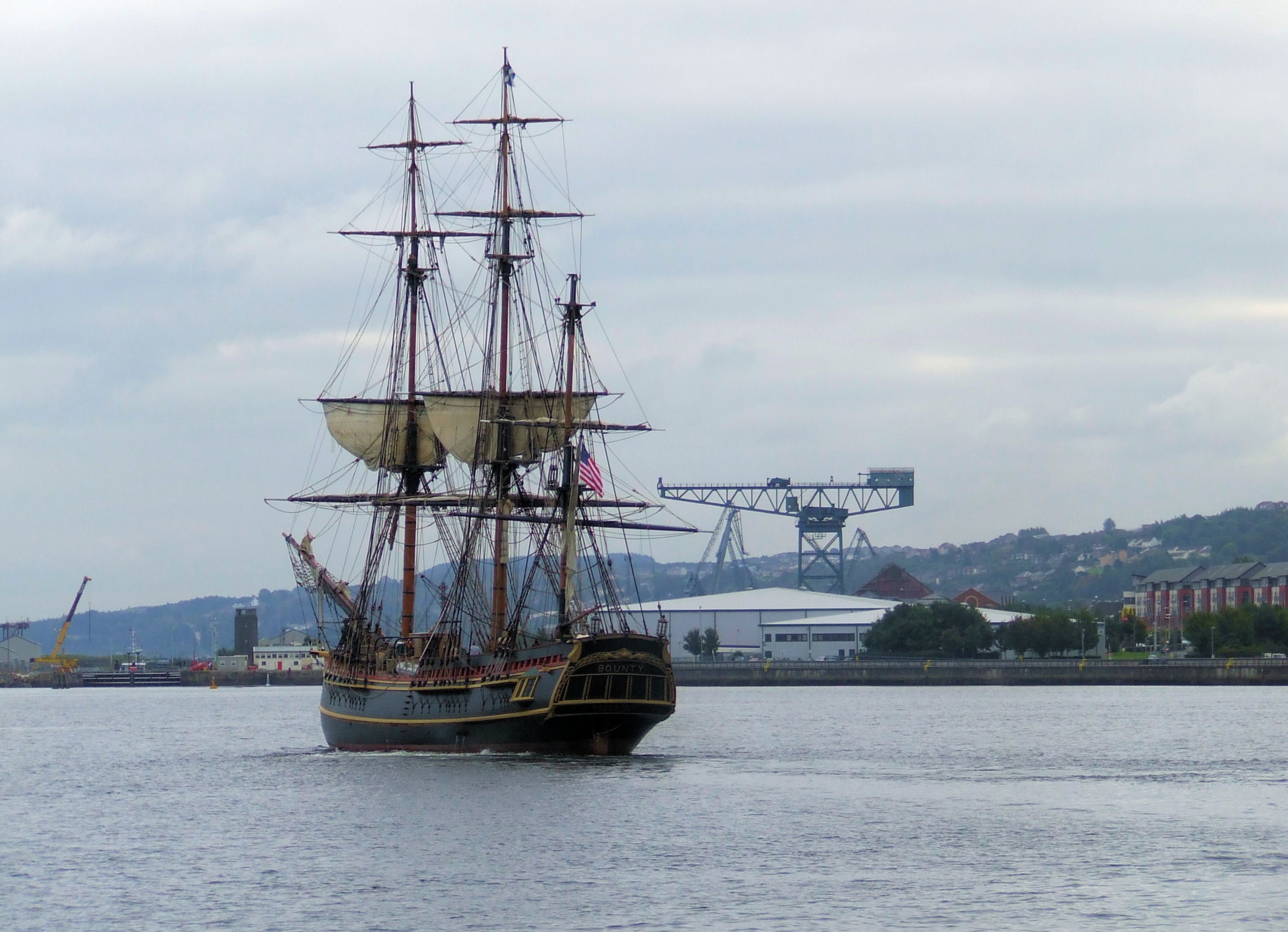 Bounty leaving Greenock on the River Clyde